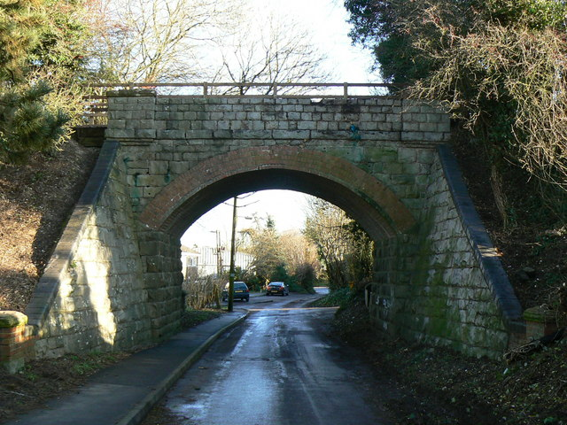 Bridge over Elcot Lane, Marlborough, Wiltshire The bridge once carried what was once the Midland and South Western Junction railway. Find out more about the line at Keyword:M&SWJR